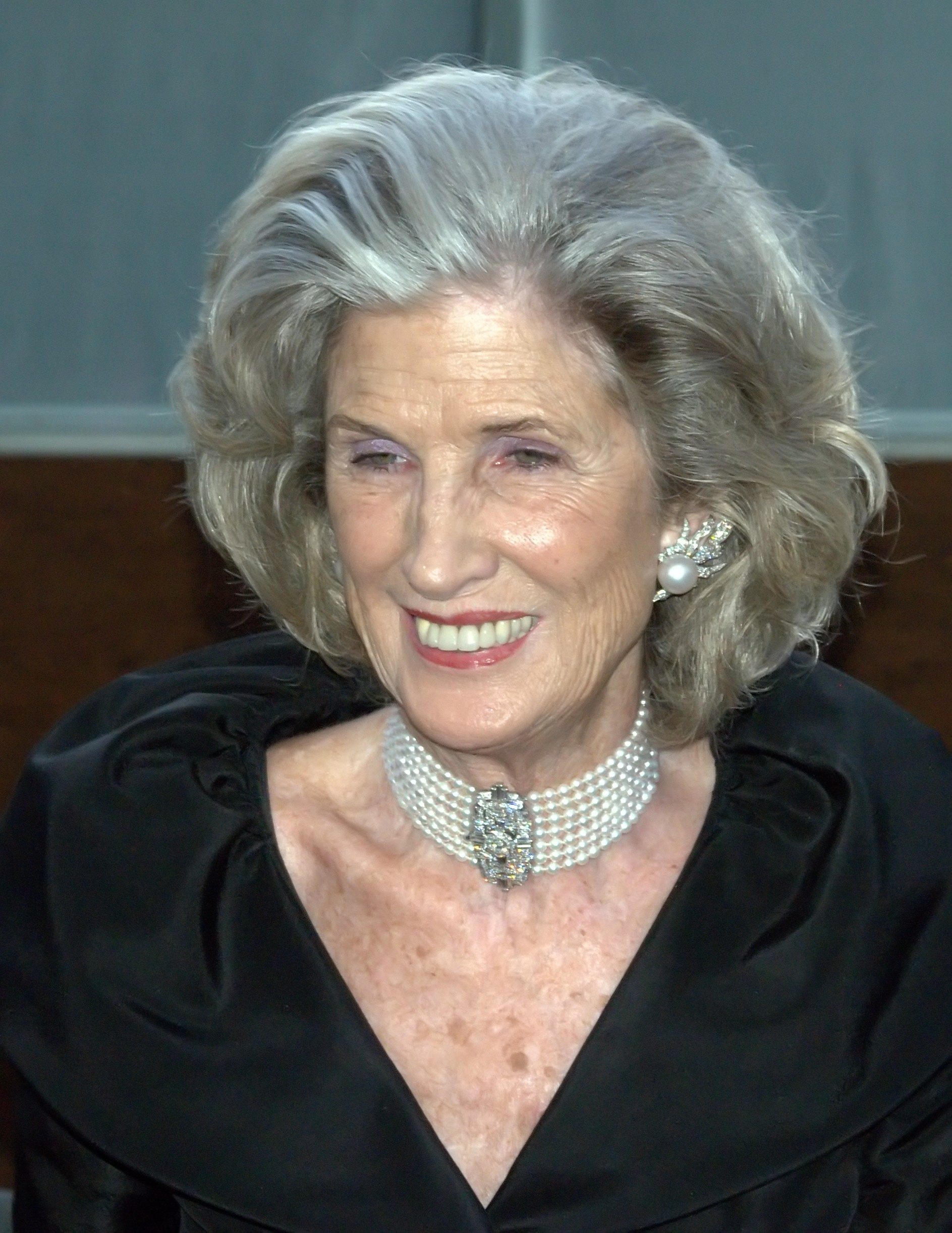 Nancy Kissinger at the 2009 premiere of the Metropolitan Opera in New York City. Photographer's blog post about event and photograph.